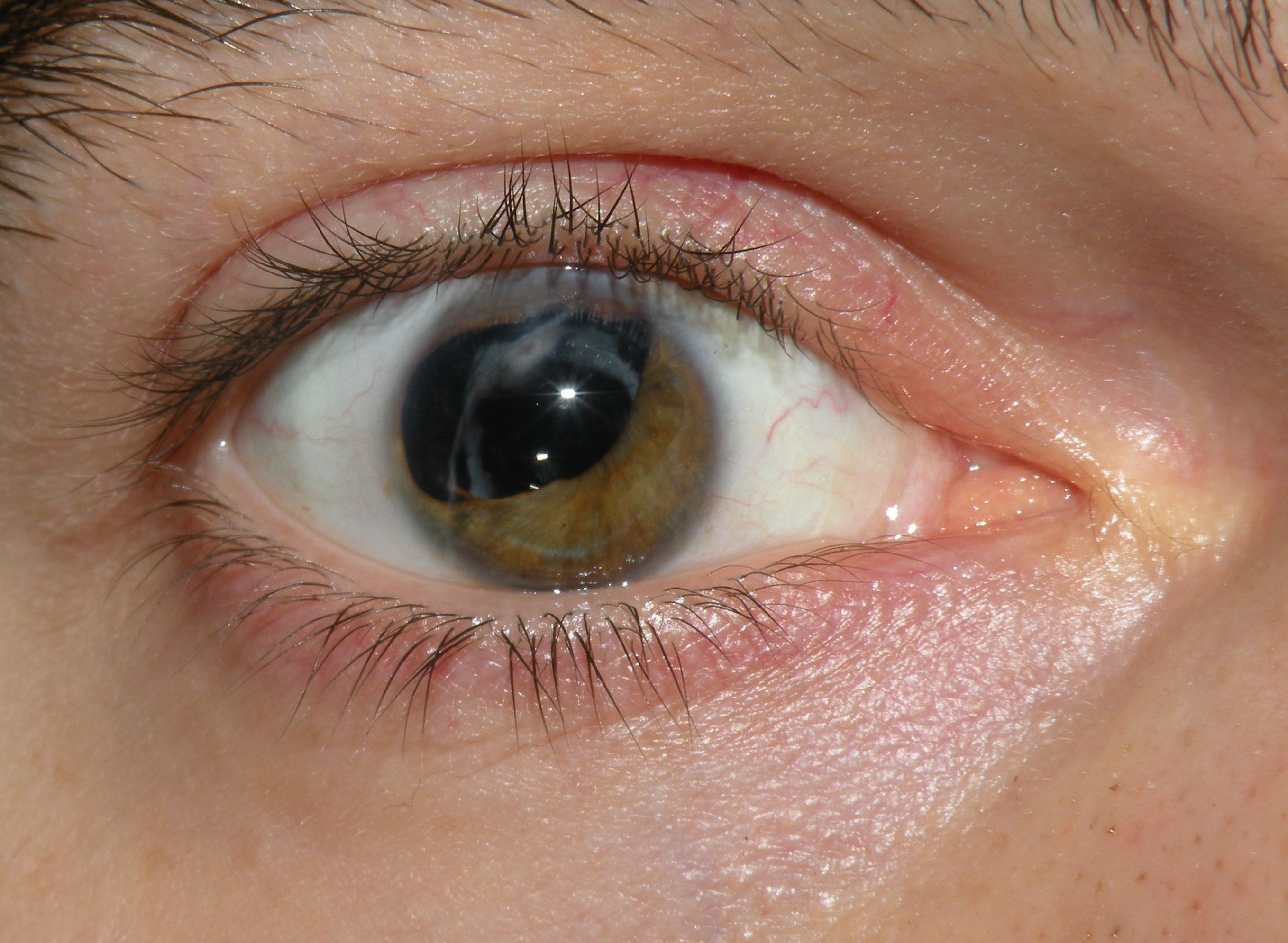 Right eye with iris and lens injuries, with postraumatic cataract